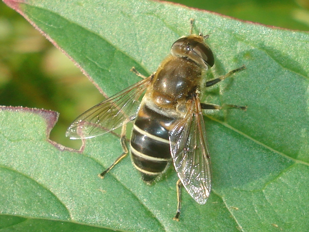 Eristalis interrupta